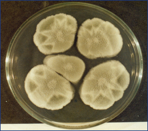 P. purpurogenum agar culture